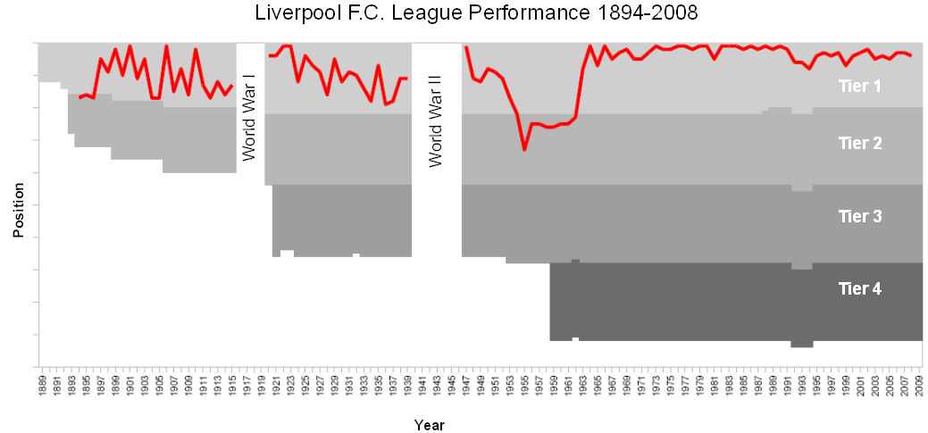 Graph showing the final league position of Liverpool F.C. 1894-2007